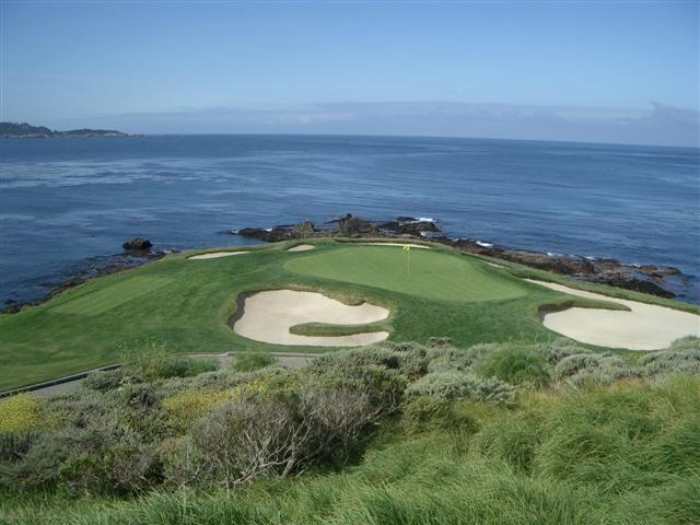 The 7th hole at Pebble Beach Golf Links, Monterey County, California